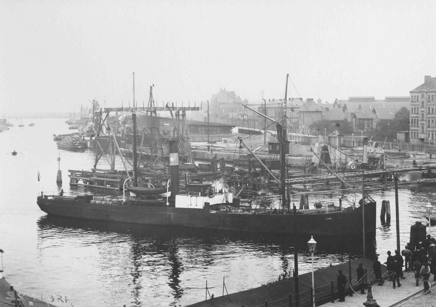 probably Laura ship(cpt. Maersk) in Svendborg, Denmark, photo prb about 126 years old, and rahter public domain because of age a